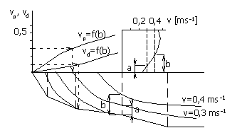 Computation of discharge - Culman method, construction of isotachs